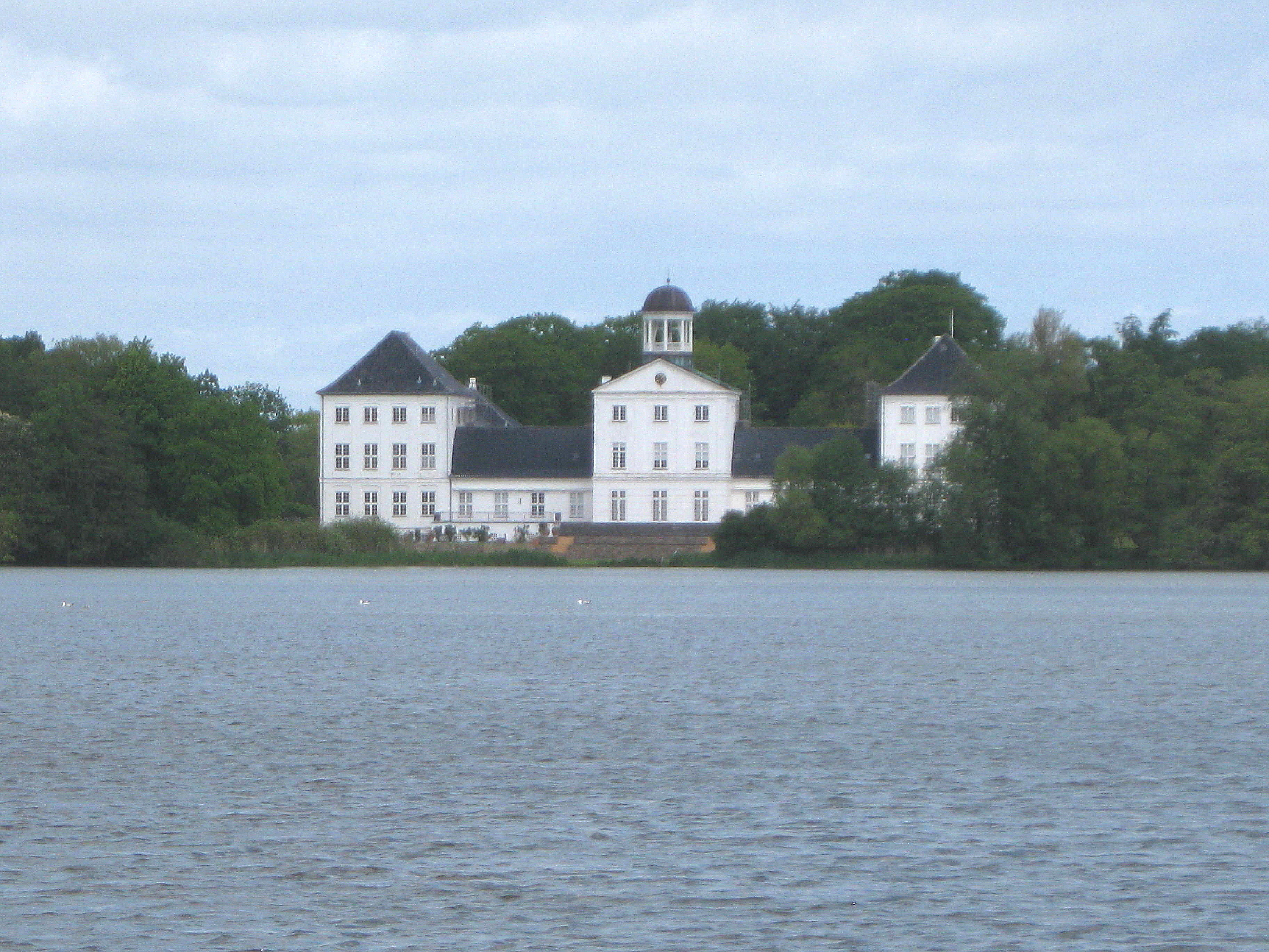 The castle "Gråsten Slot" located nearby the small town "Gråsten" in Southern Jutland, Denmark.